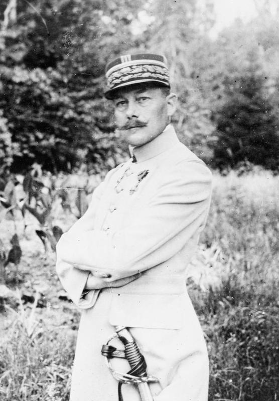 The French Army on the Western Front, 1914-1918 General Georges Humbert, the Commander of the French Third Army, at Verberie.